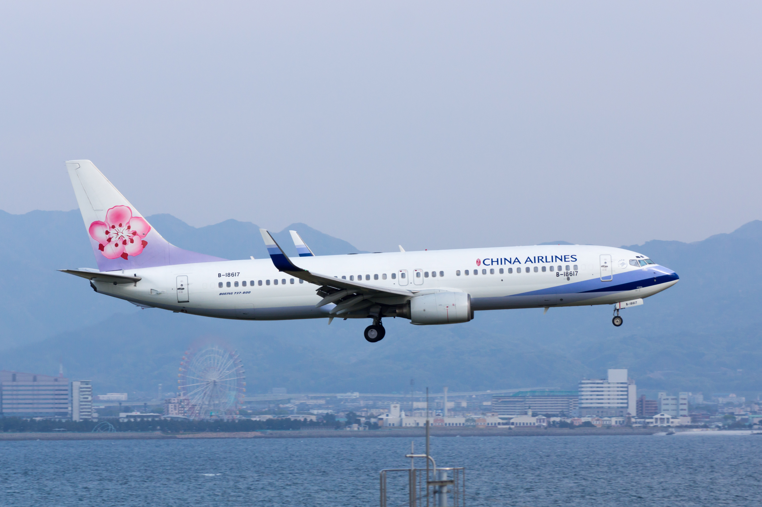 China Airlines Boeing 737-809